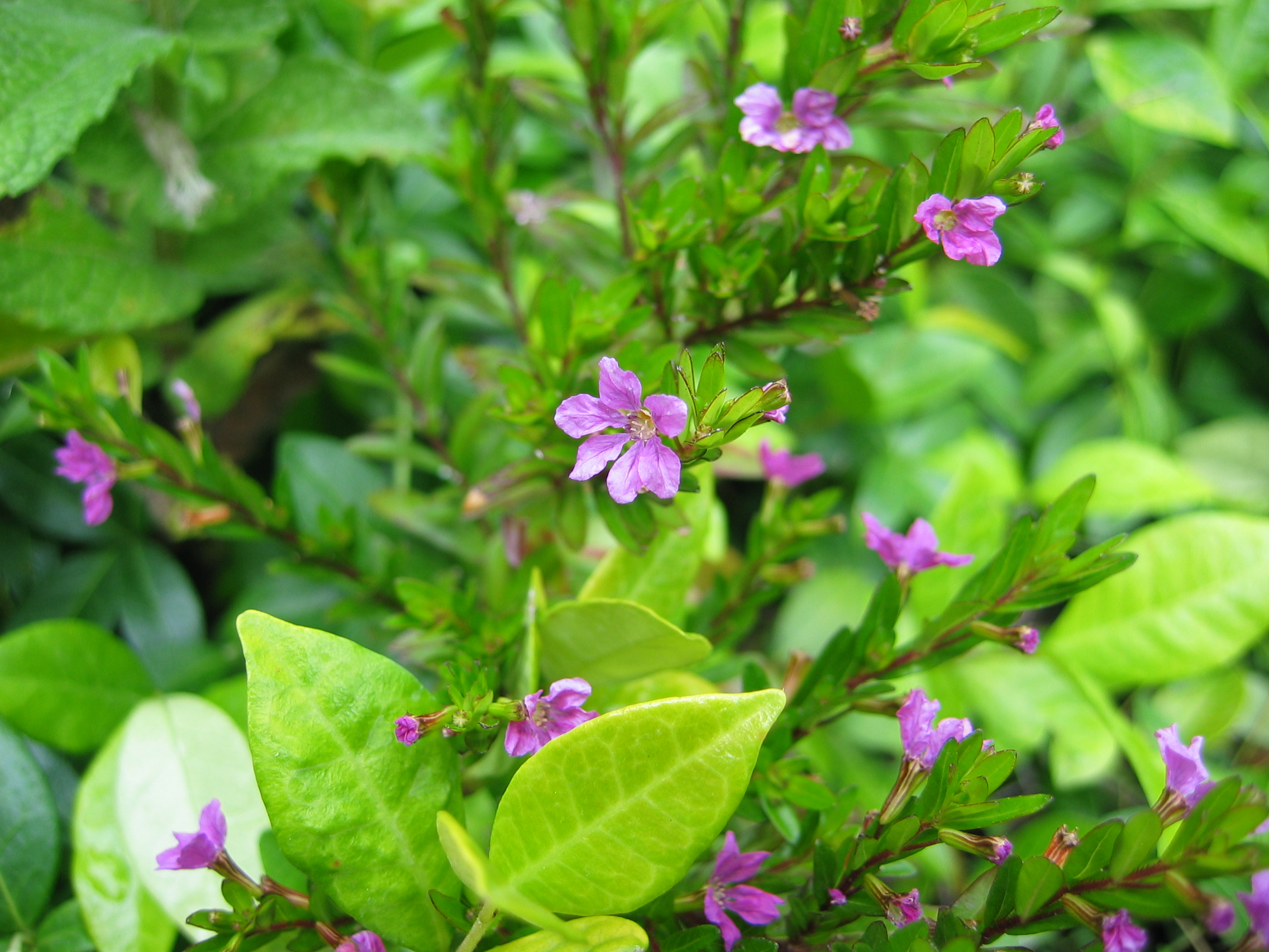 Cuphea flowers (Cuphea hyssopifolia) in a residential backyard in southern California. Background leaves include leaves from the mint and the star jasmine.